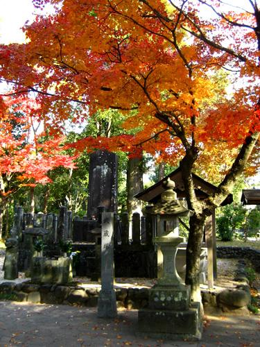 The grave marker for Miyamoto Musashi, taken at Musashizuka Koen near Musashizuka station, Kumamoto City, Kumamoto Prefecture.